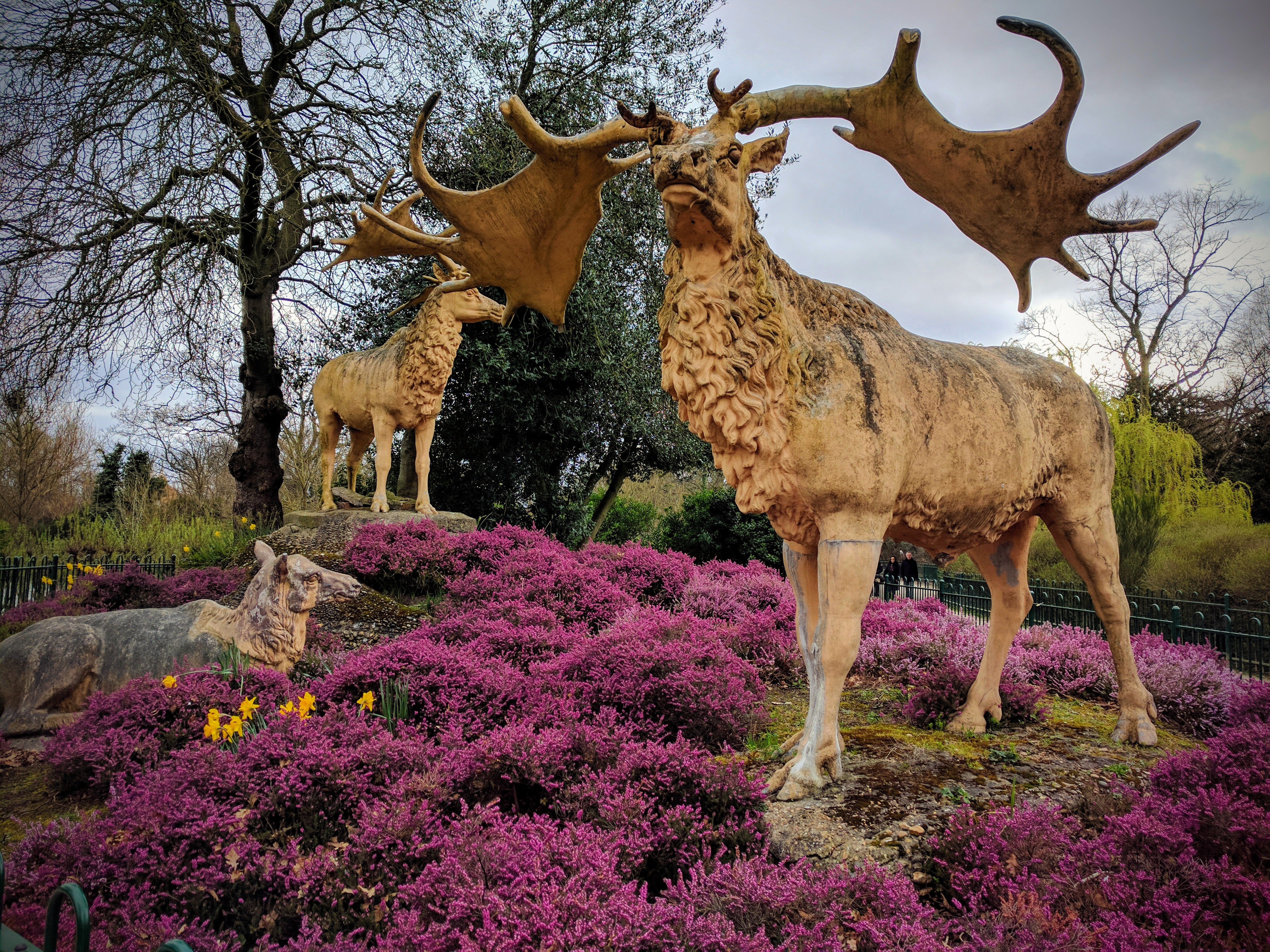 Irish Elk group - Megaloceros Giganteus from the Pleistocene - roughly 2.5 million to 11,700 years ago - or last Ice Age, part of a group of cast cement animals, principally dinosaurs made by Benjamin Hawkins in 1854 for the newly sited Crystal Palace, from the Great Exhibition, in Sydenham, London.